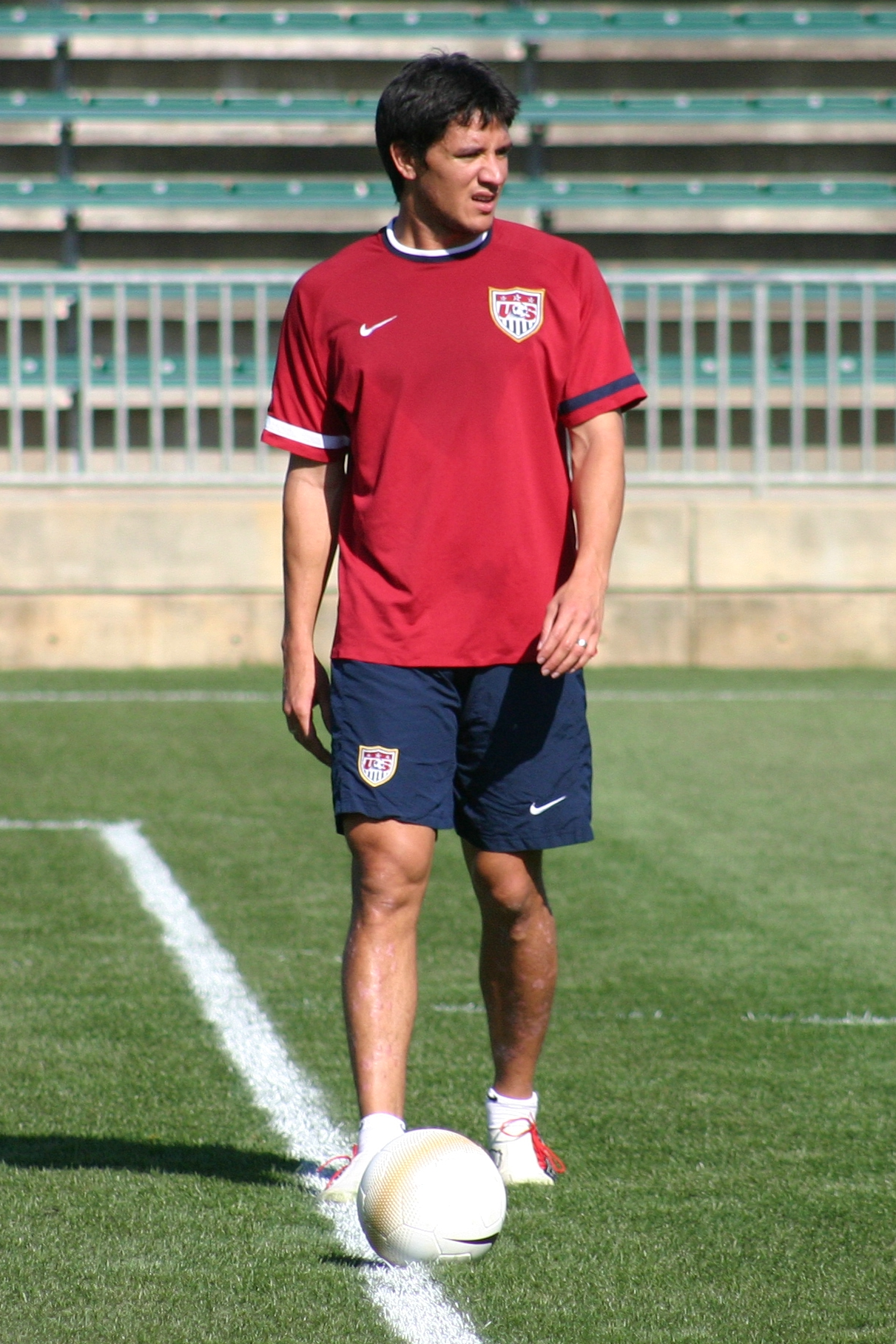 Brian Ching, during USMNT practice